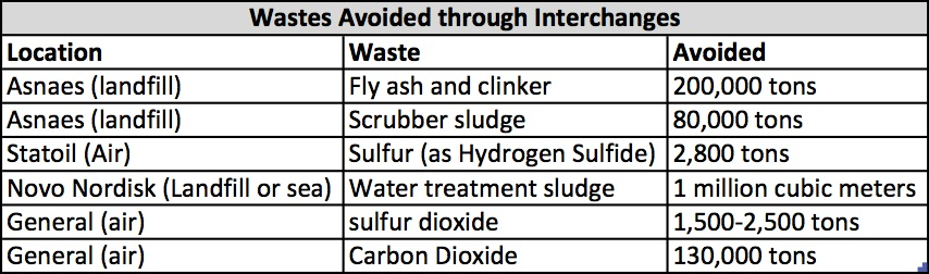 A table illustrating annual wastes avoided at Kalundborg as of 1997